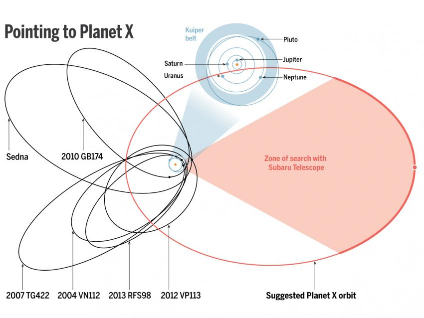 Diagram suggested of the orbit of Planet X.